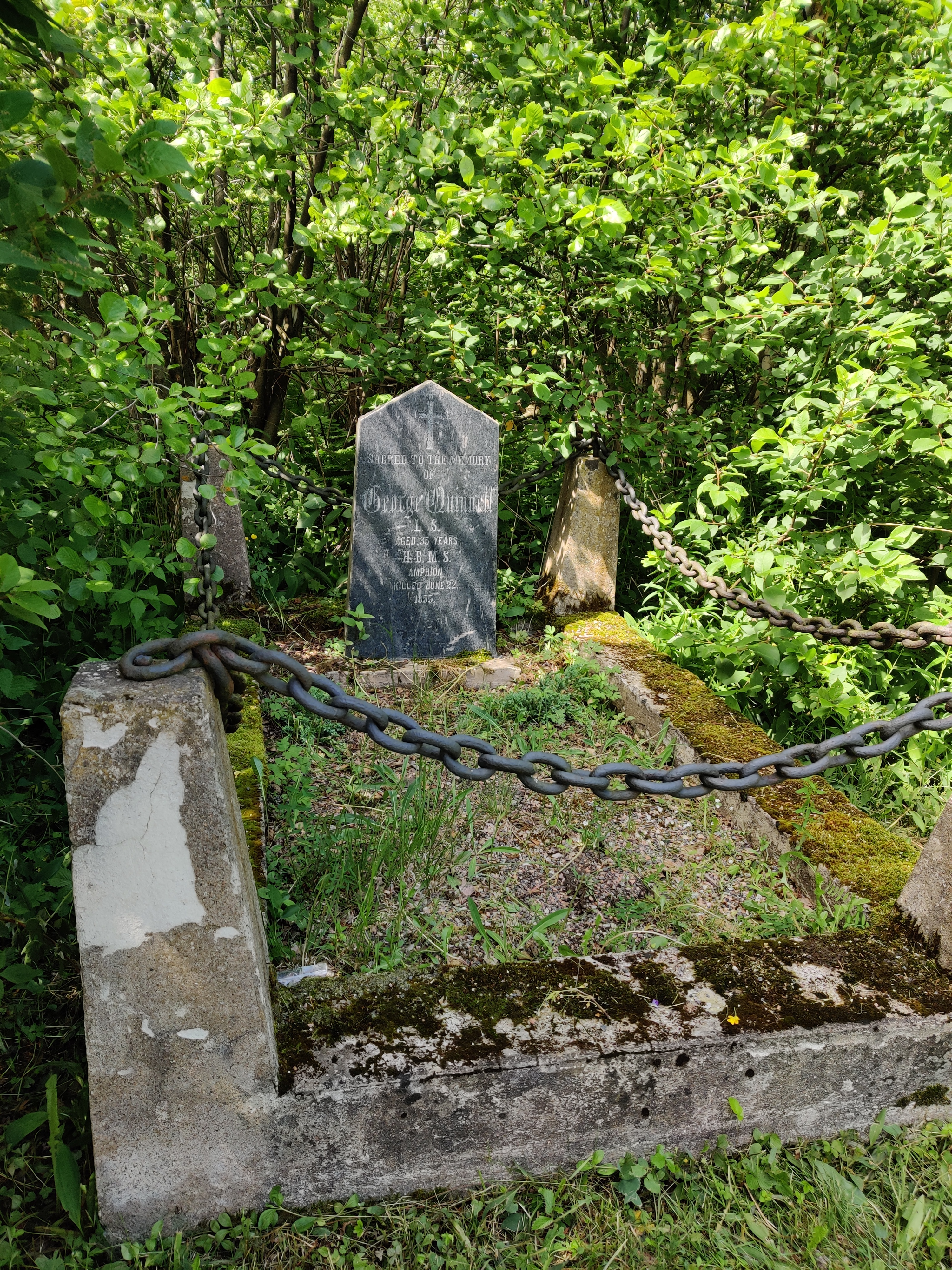 Grave of George Quinnell